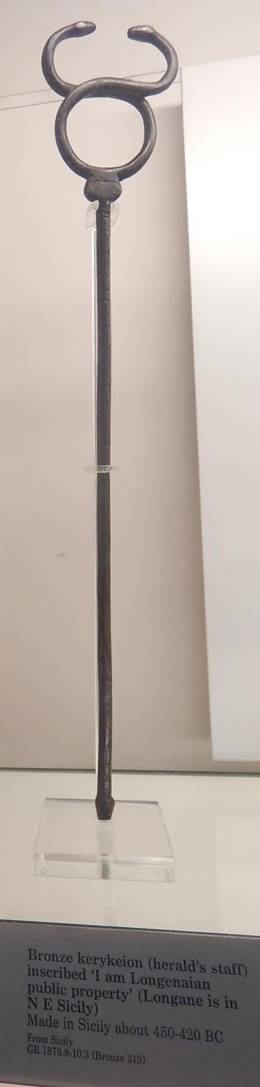 the bronze kerykeion exposed at the British Museum, evidence of the ancient civilization of Longane that developped along the Longanus river,today considered by many the Patrì river that rises in Fondachelli- Fantina, Sicily